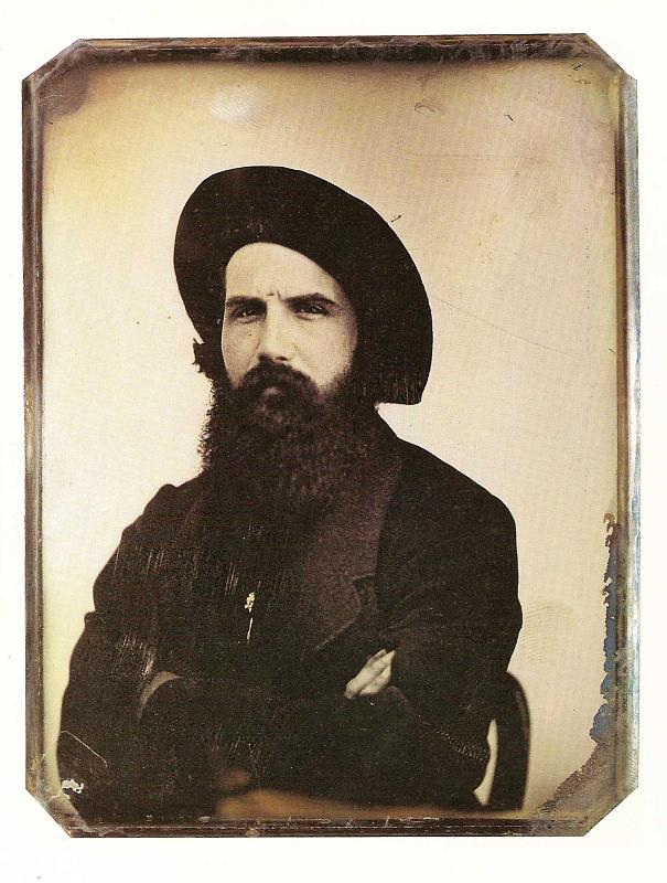 Argentine militar and writer Lucio Victorio Mansilla.